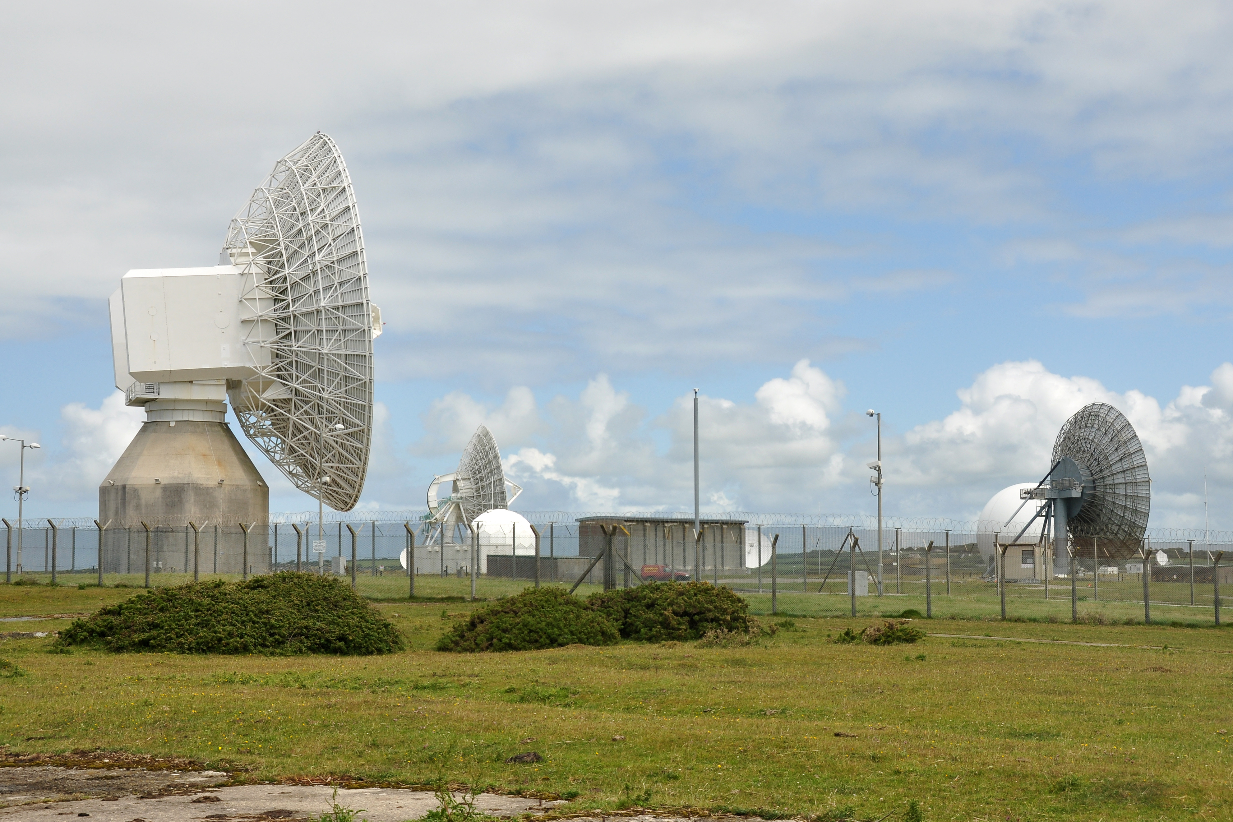 Some of the satellite dishes at GCHQ Bude, in northern Cornwall.